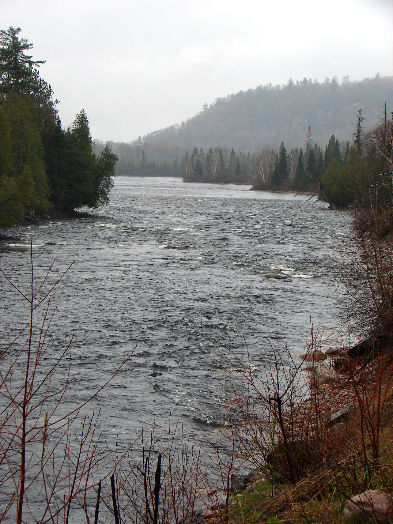 Mississagi River near junction of Rte 556 and Hwy 129, Ontario, Canada